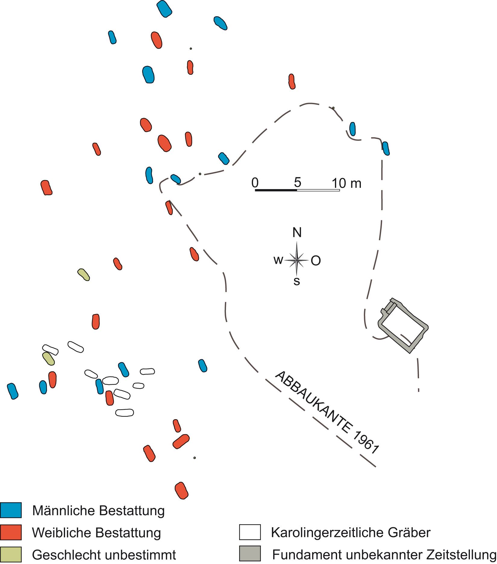 Cemetery group A of Neumarkt an der Ybbs